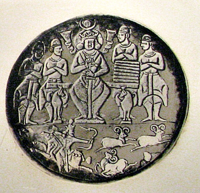 This is a photograph of an exhibit at the Diaspora Museum, Tel Aviv Beit Hatefutsot. (Photo taken by User:Sodabottle)